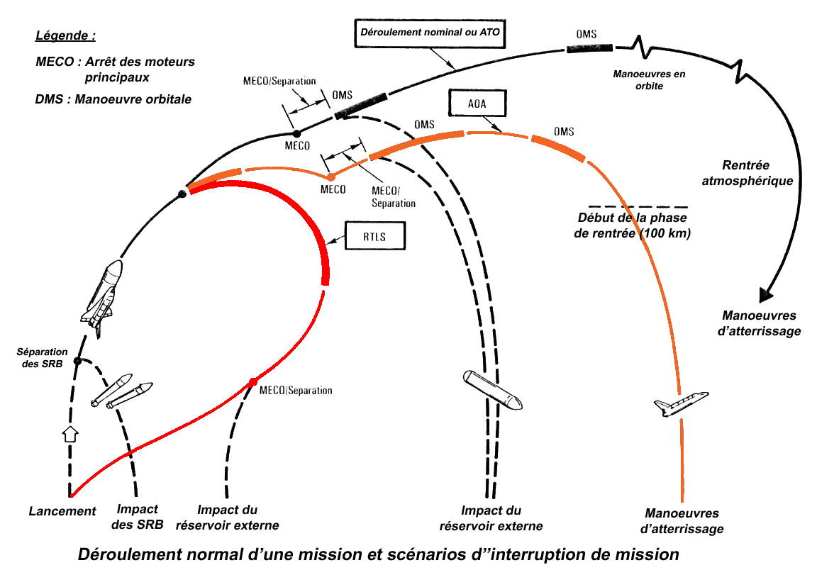 space shuttle : abort and normal mission profile